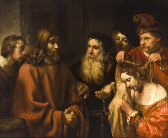 Christ and the adulterous woman, (signed “Rembrandt f. 1644”), 1898 collection Ed.F. Weber, Hamburg; 1980s deaccessioned by the Walker Art Gallery; sold at Bonhams in 2011